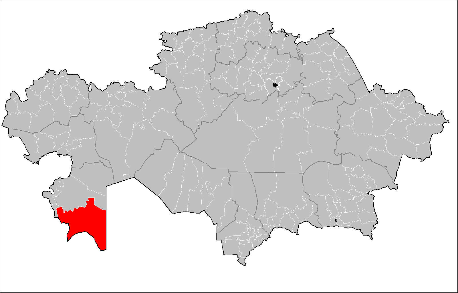 Map of the rayons of Kazakhstan. Created by Rarelibra 16:49, 3 August 2007 (UTC) for public domain use, using MapInfo Professional v8.5 and various mapping resources.